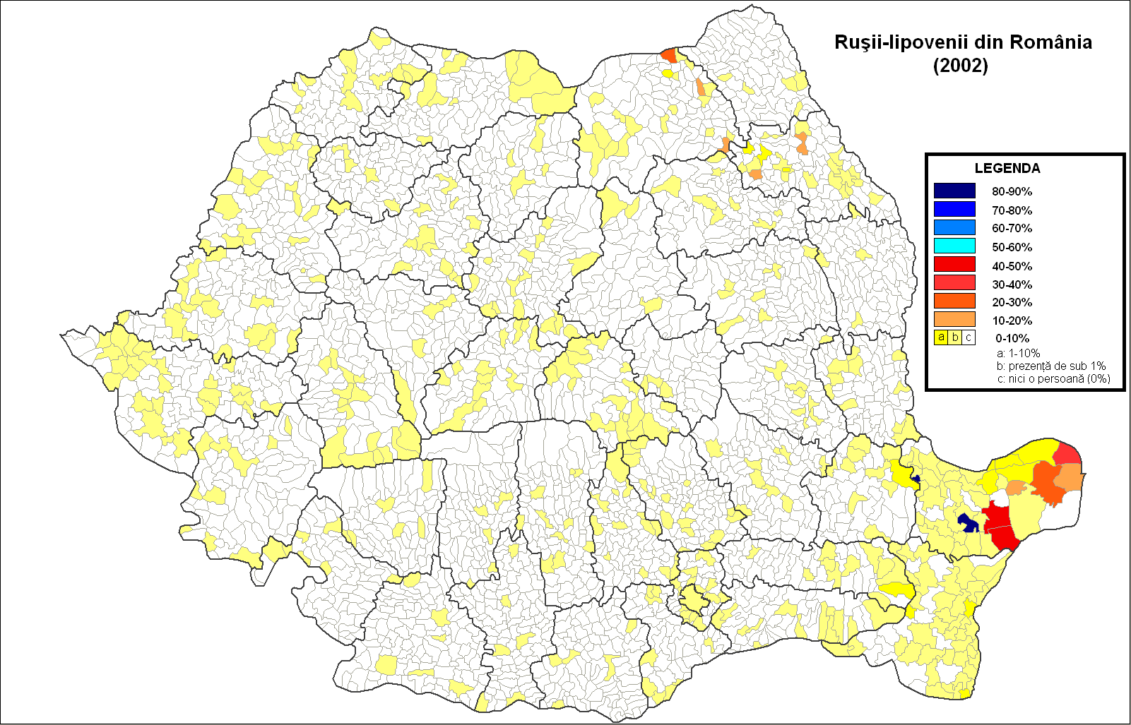 The distribution of the Russians and Lipovans in Romania (census 2002)